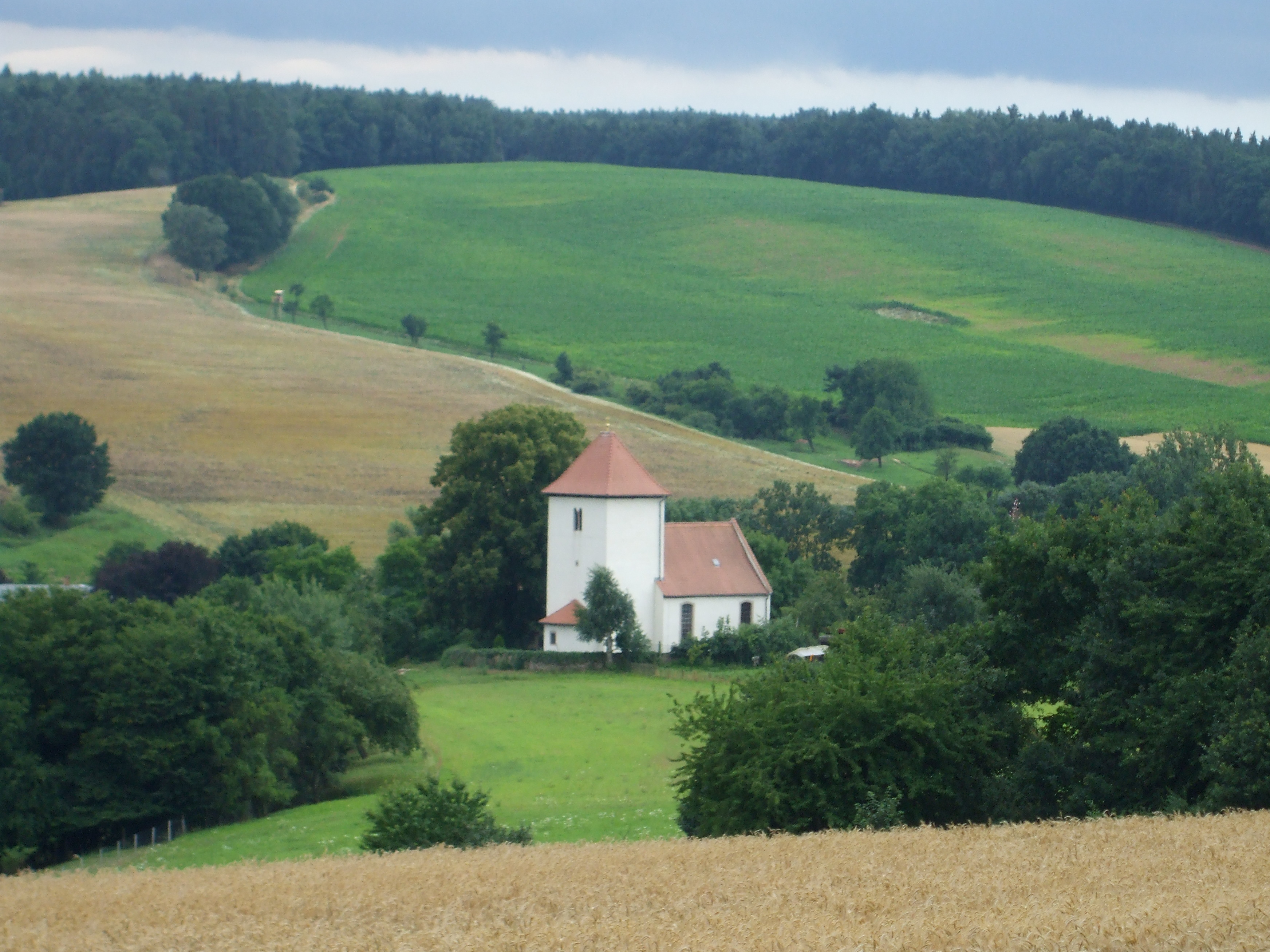 Church of Geißen, municipality of Saara, Greiz district, Thuringia